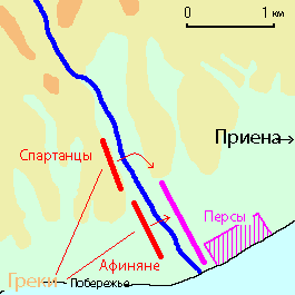 Battle of Mycale. Was made from File:Mycale3 map.gif + russian translation of terms